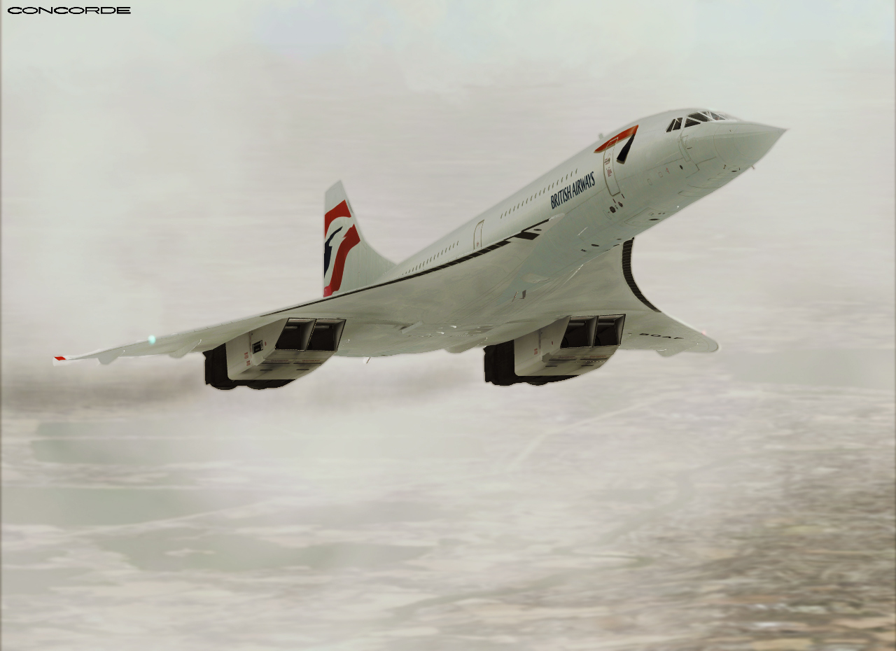 A 3D representation of Concorde from Microsoft Flight Simulator X, edited with Adobe Photoshop.